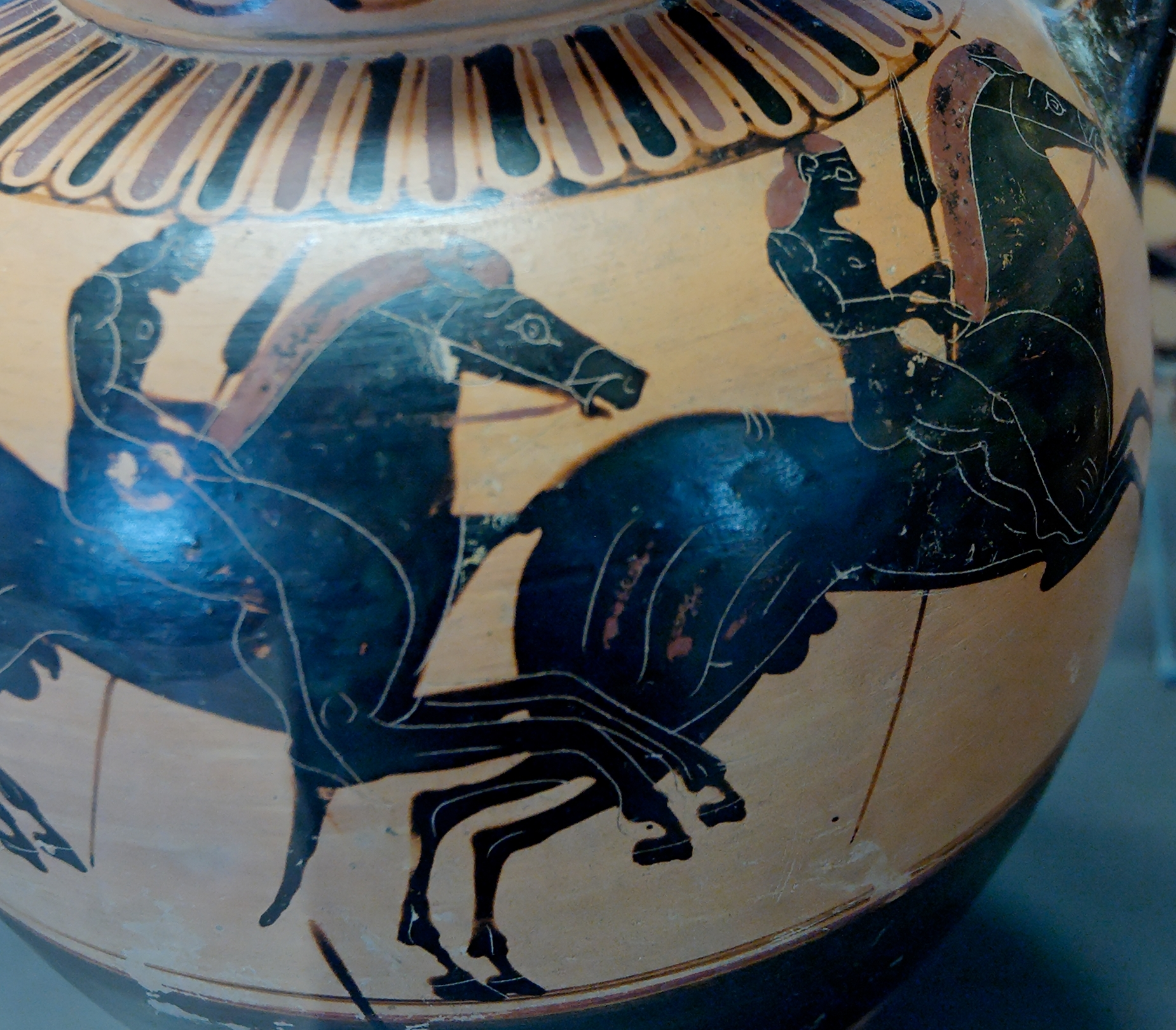 Side A: Heracles and the Nemean Lion. Side B: Riders. Side B